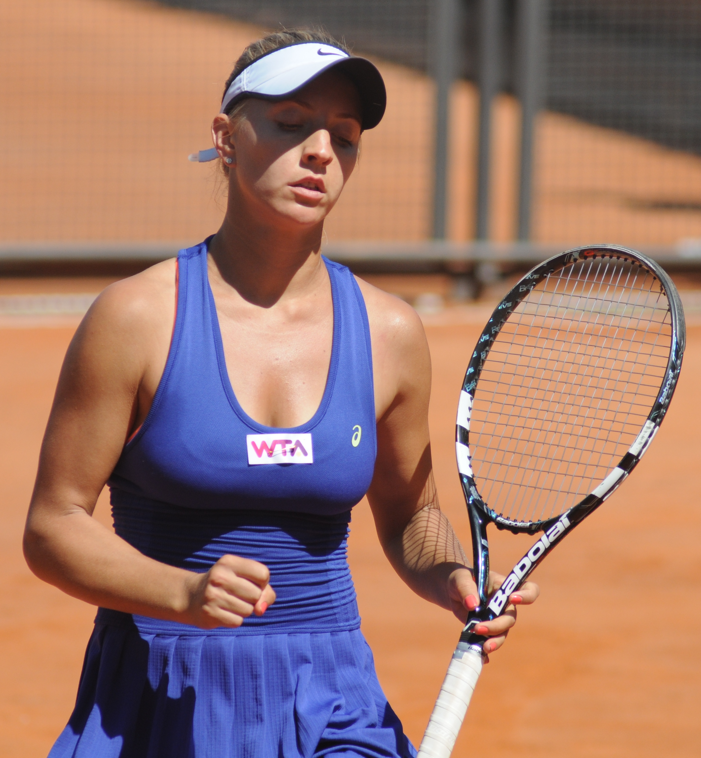 Marina Shamayko at the 2014 Internazionali BNL d'Italia aka the Rome Masters